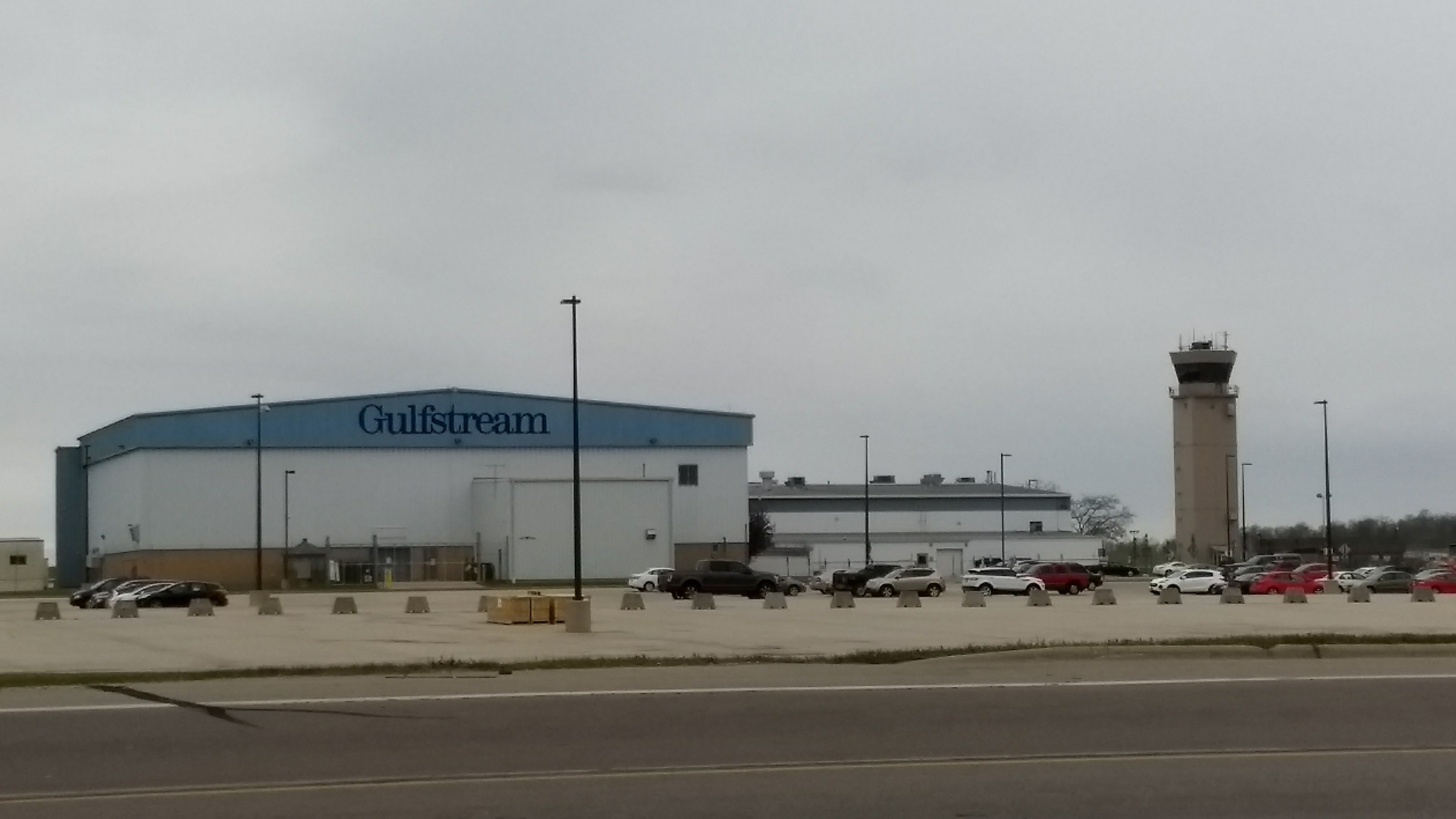 Image of Appleton International Airport's Air Traffic Control Tower and a Gulfstream Aerospace Hangar